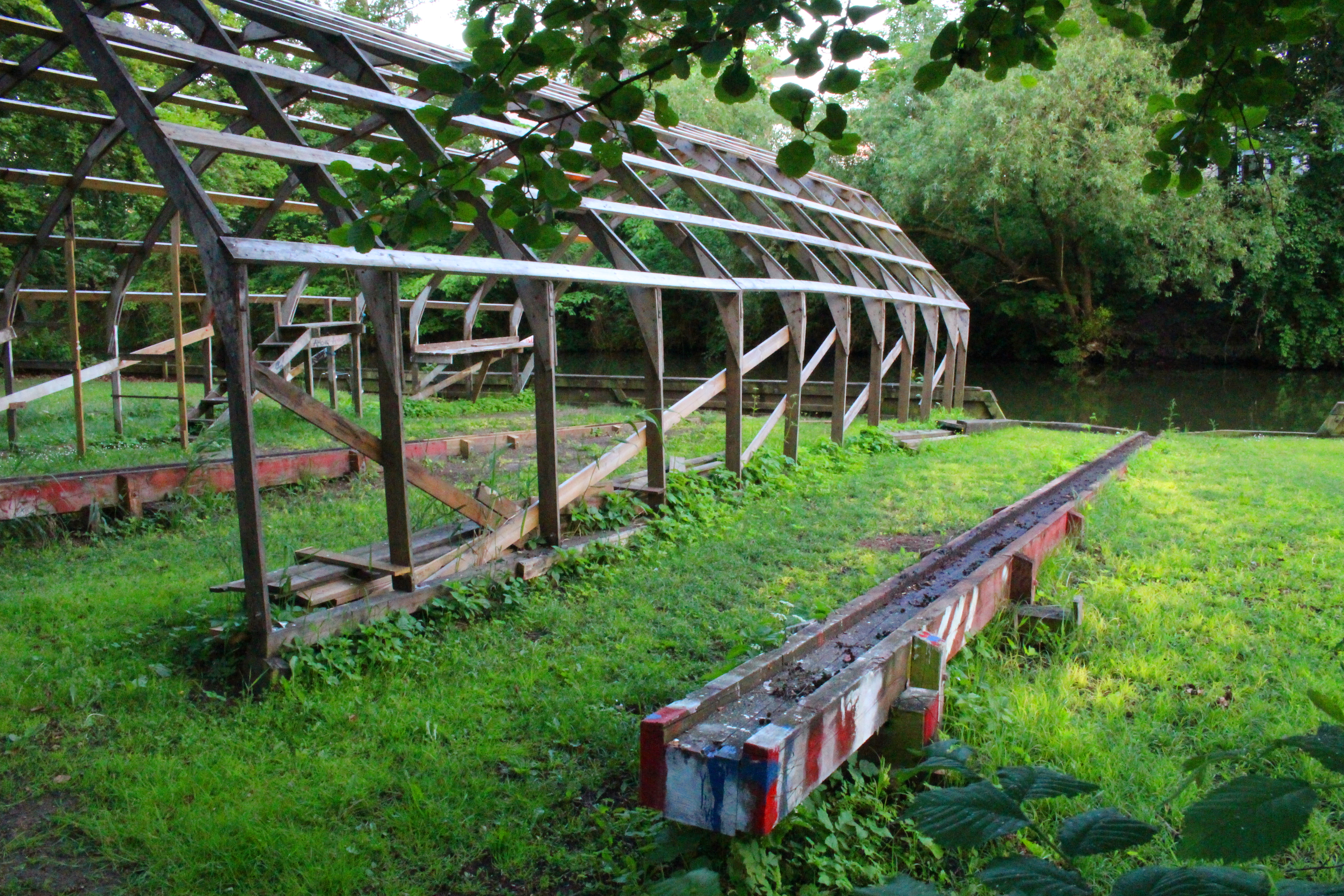 Slipway for the boats on Lyngby Lake, Denmark